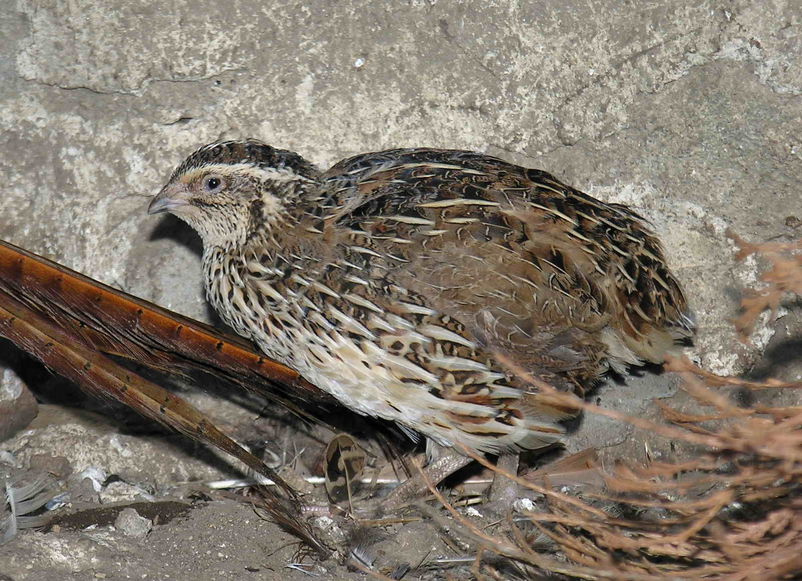 Coturnix coturnix. Teaño - Cuntis - Galicia - Spain